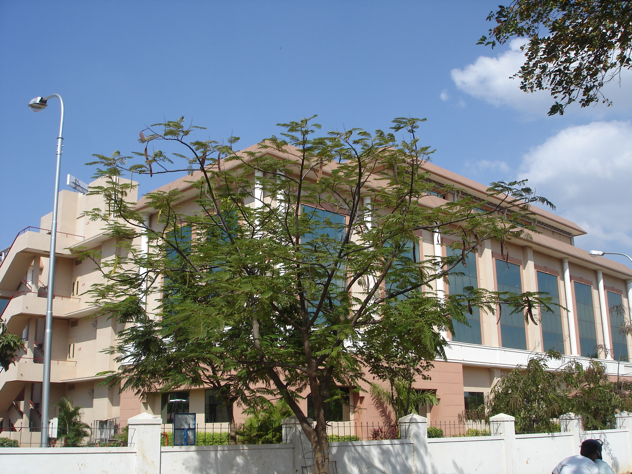 Snap of Honeywell development centre, Madurai,India